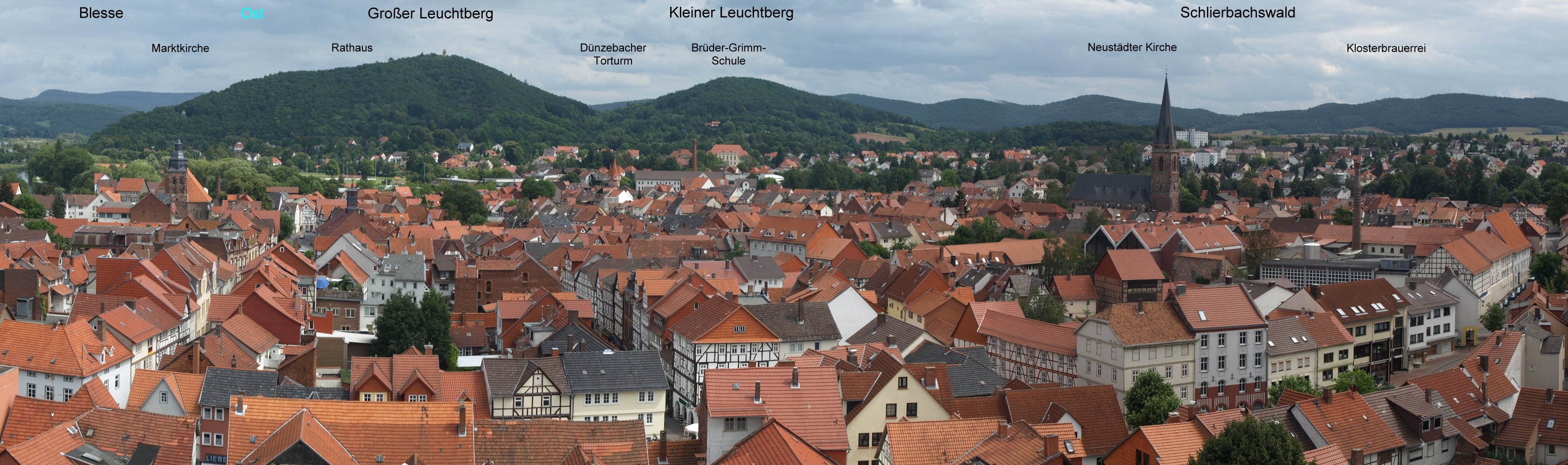 Panoramic view of Old Town Eschwege (labeled). Taken from Nikolaiturm (former spire on western edge of the Old Town)